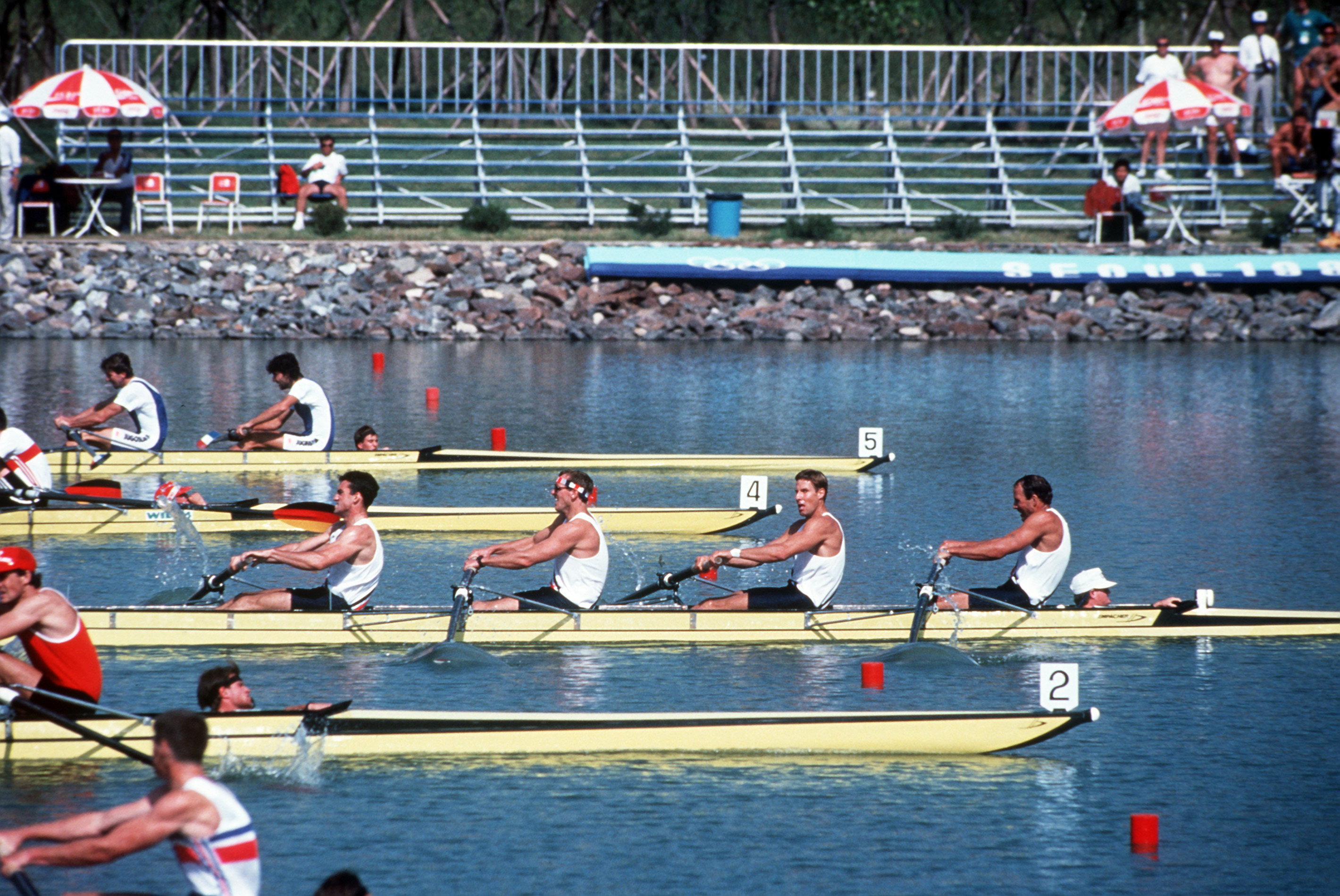 US Olympic rowing team vie for the gold in the rowing-4 competition during the XXIV Olympic Games.